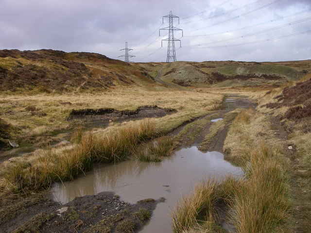 Former opencasting on Mynydd Pen-cyrn This access track from Clydach Dingle runs through an area of moorland which was open-casted decades ago. The result today is a landscape of endless ridges and hollows now vegetated. Primary use is for grazing - and seemingly also motorbike scrambling despite the fact that it is in the Brecon Beacons National Park.